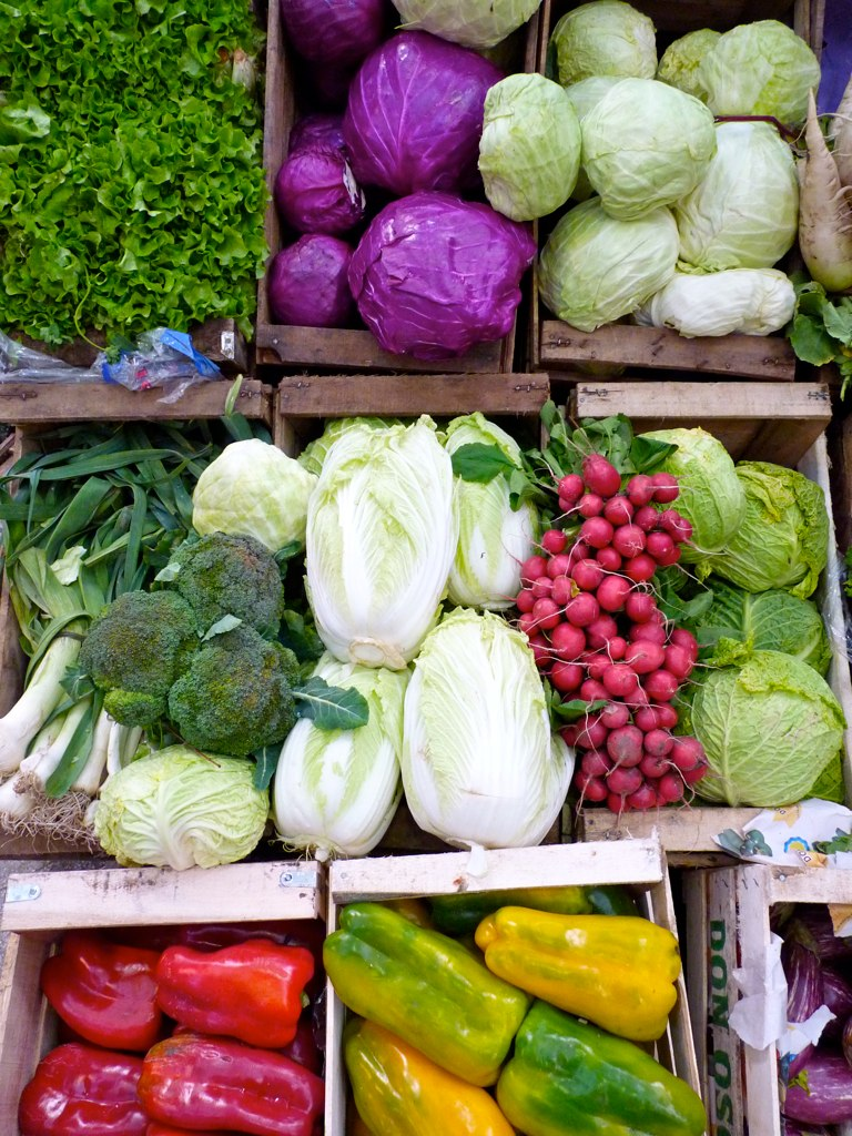 Colours of Health